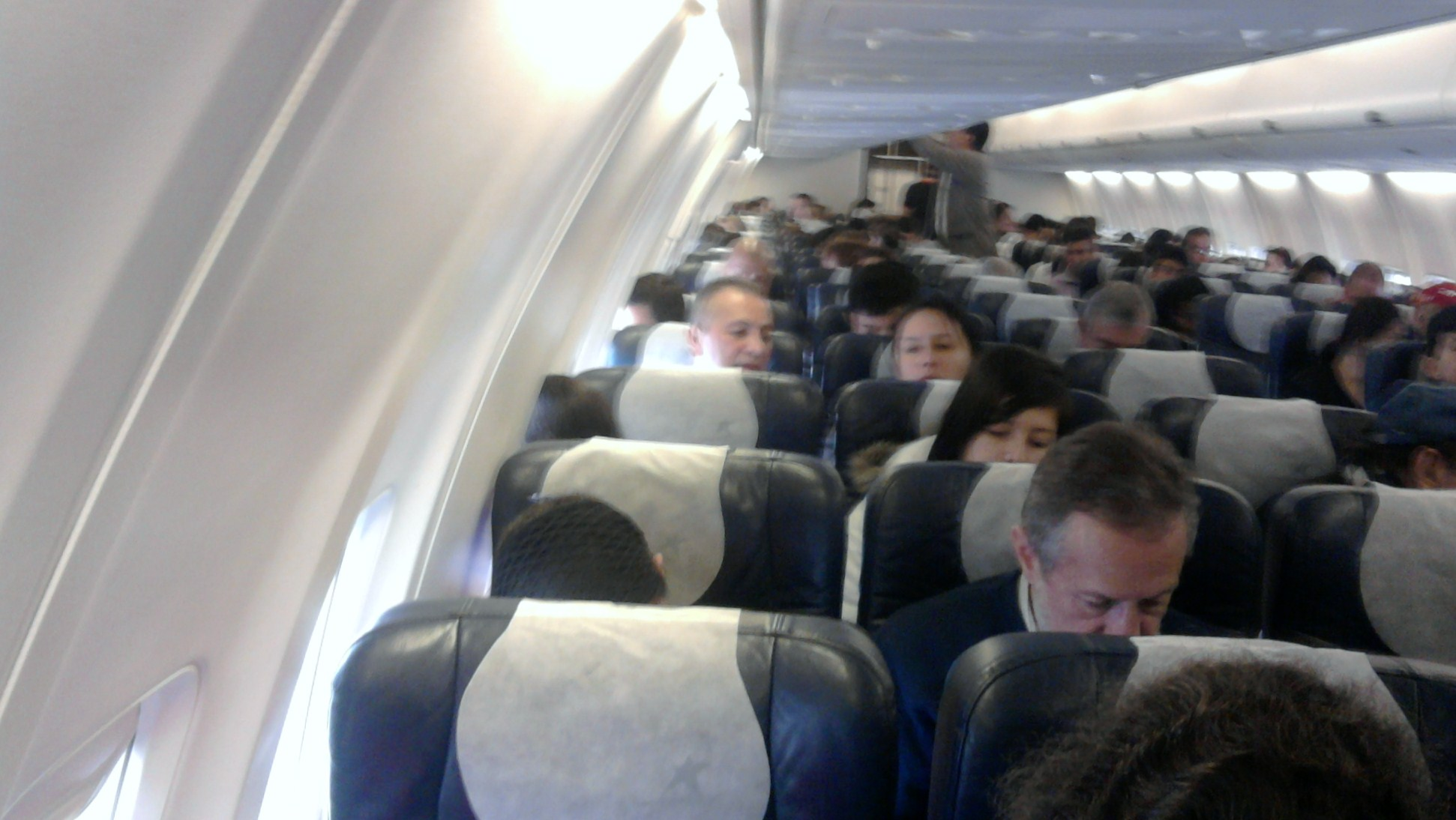 El Dorado International Airport